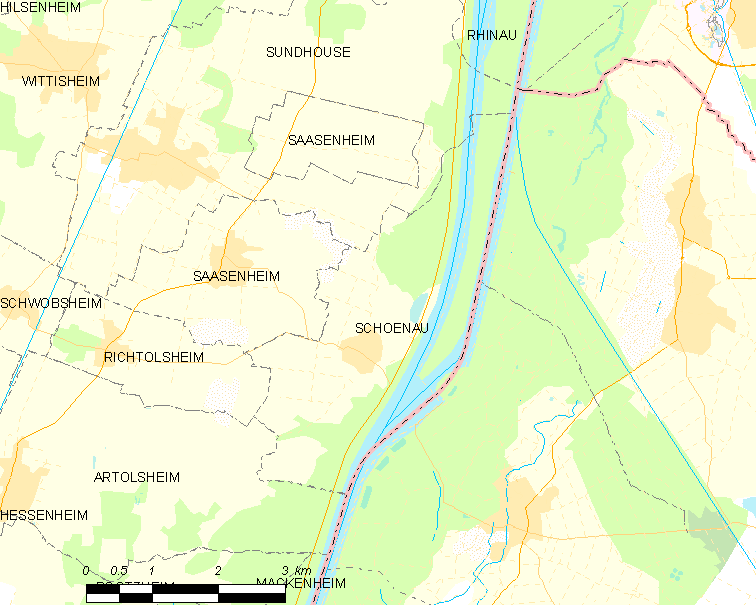 Map of French municipality